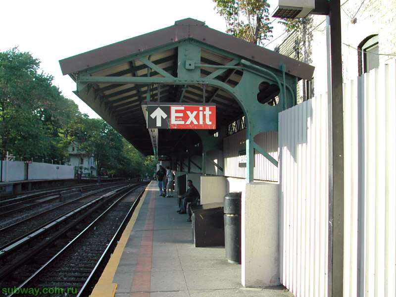 Avenue H Brighton line looking north. Photo by Larry Fendrick, taken May 19 2003